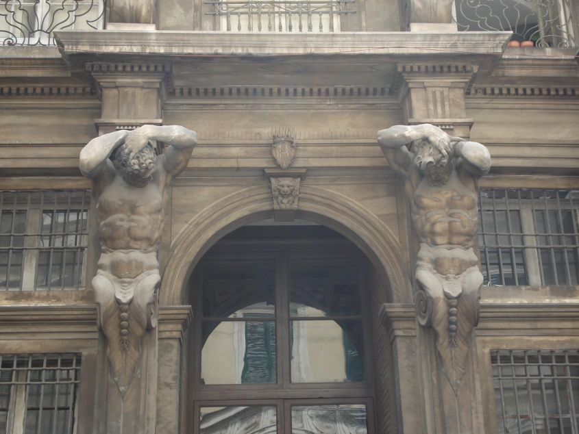 Gio Carlo Brignole Palace in Genova